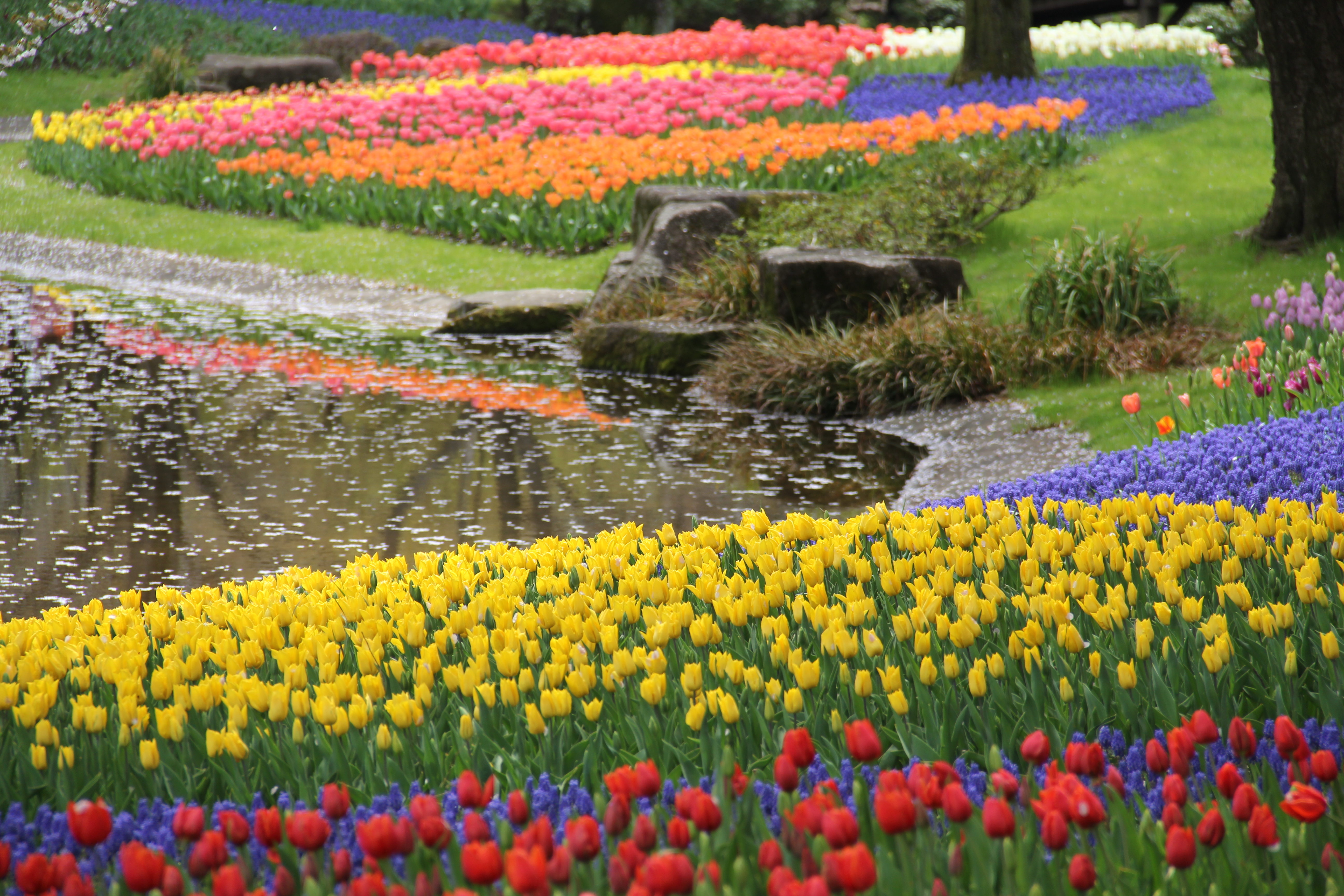 Shawa kinen park